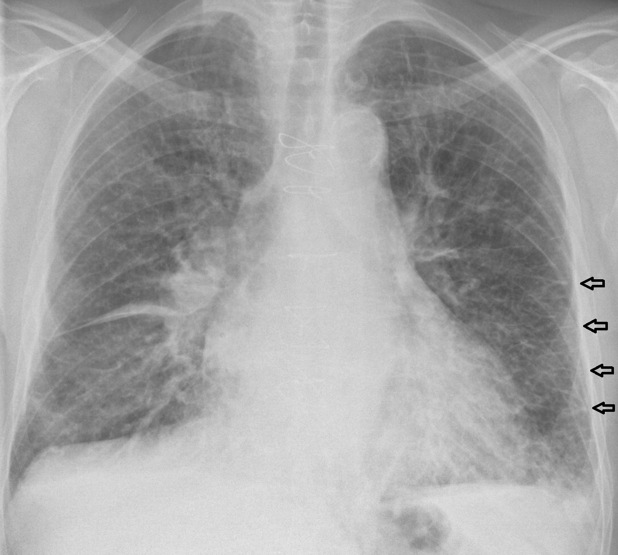 edit Chest radiograph of an 83 year old man with previous coronary artery bypass surgery and multiple percutaneous coronary interventions, now presenting with labored breathing. It shows distinct Kerley B lines, as well as an enlarged heart, somewhat dilated pulmonary blood vessels and minor pleural effusion as seen for example in the right horizontal fissure. Yet, there is no obvious lung edema. Overall, this indicated intermediate severity (stage II) congestive heart failure.